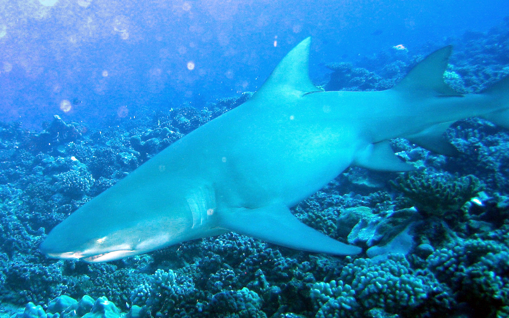 Sicklefin lemon shark (Negaprion acutidens) off Tahiti